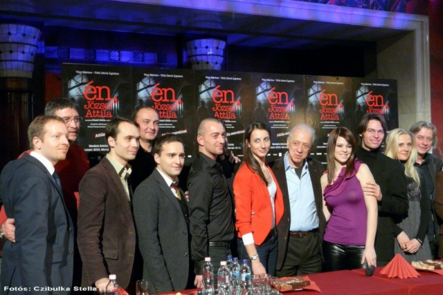 Marton Vizy